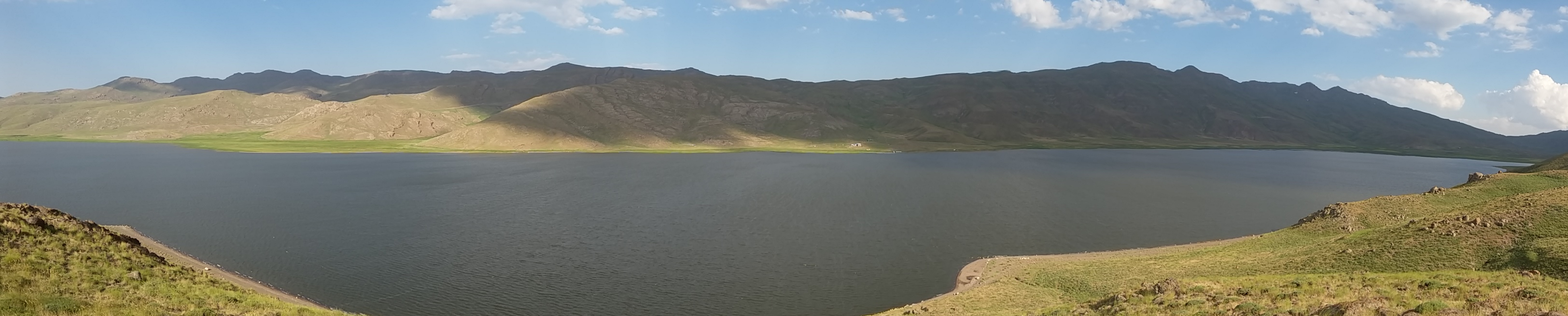 Neor Lake, South of Ardabil.